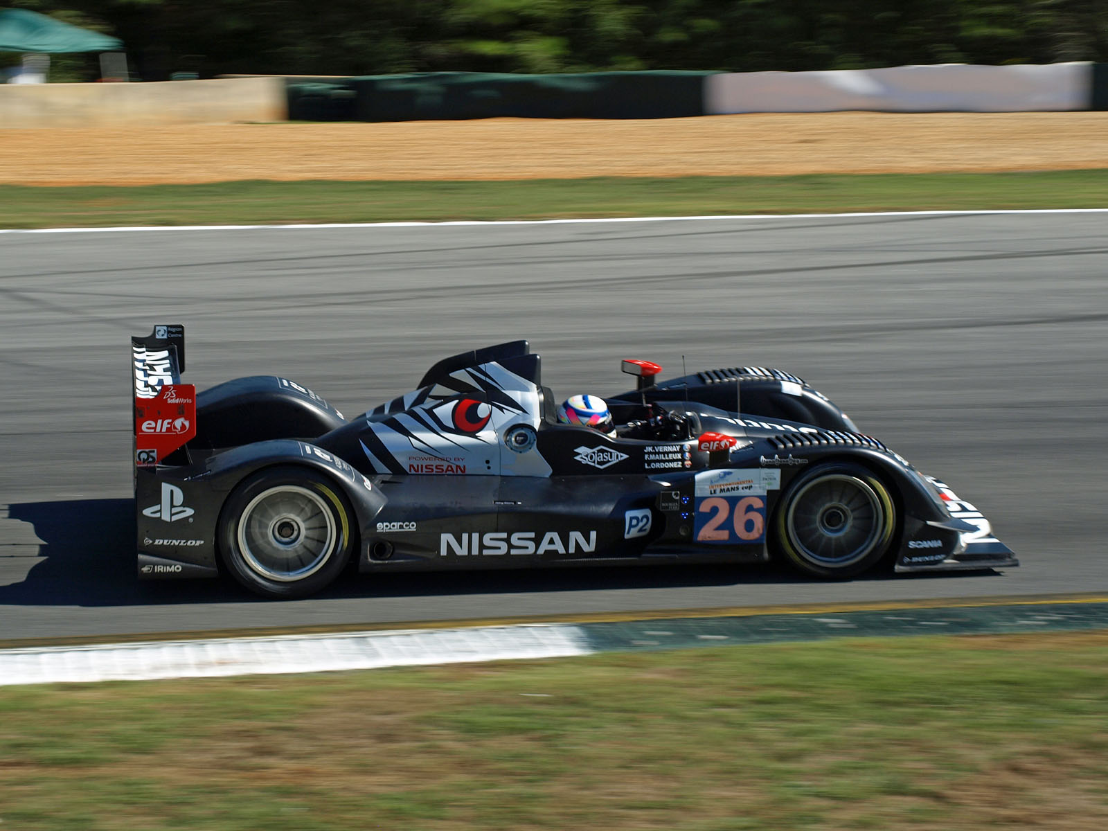 Jean-Karl Vernay driving the Signatech Oreca 03-Nissan in qualifying for the 2011 Petit Le Mans at Road Atlanta.